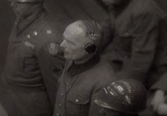 Lothar Rendulic (1887–1971), War Crimes Trials - Subsequent Trial Proceedings - Hostages Trial #7, Nuremberg, Germany. Sentencing Southeast Generals.